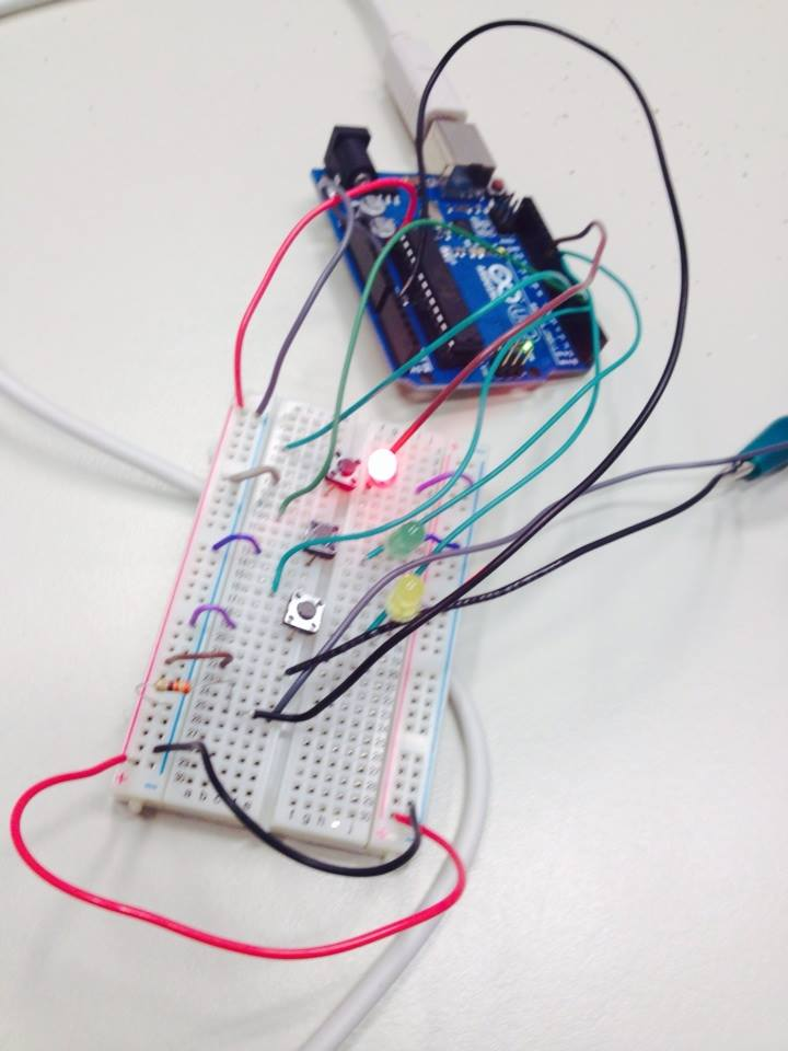 materials for Critical making